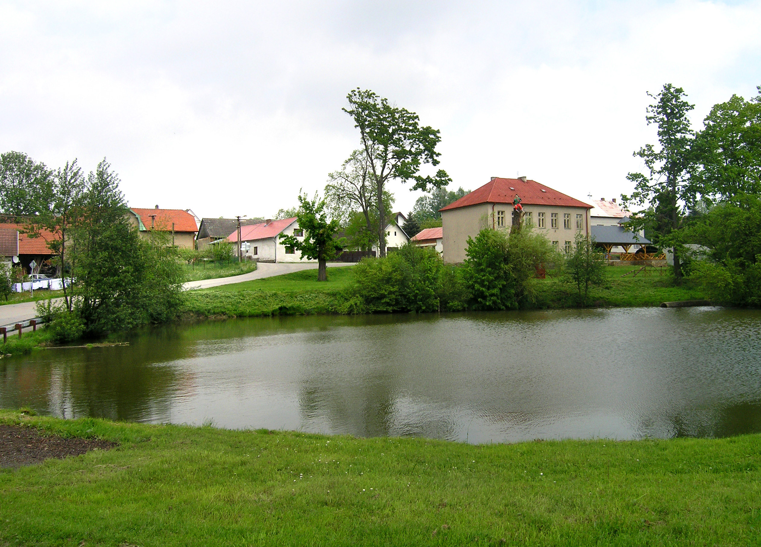 Lower pond in Kojetín village, Czech Republic